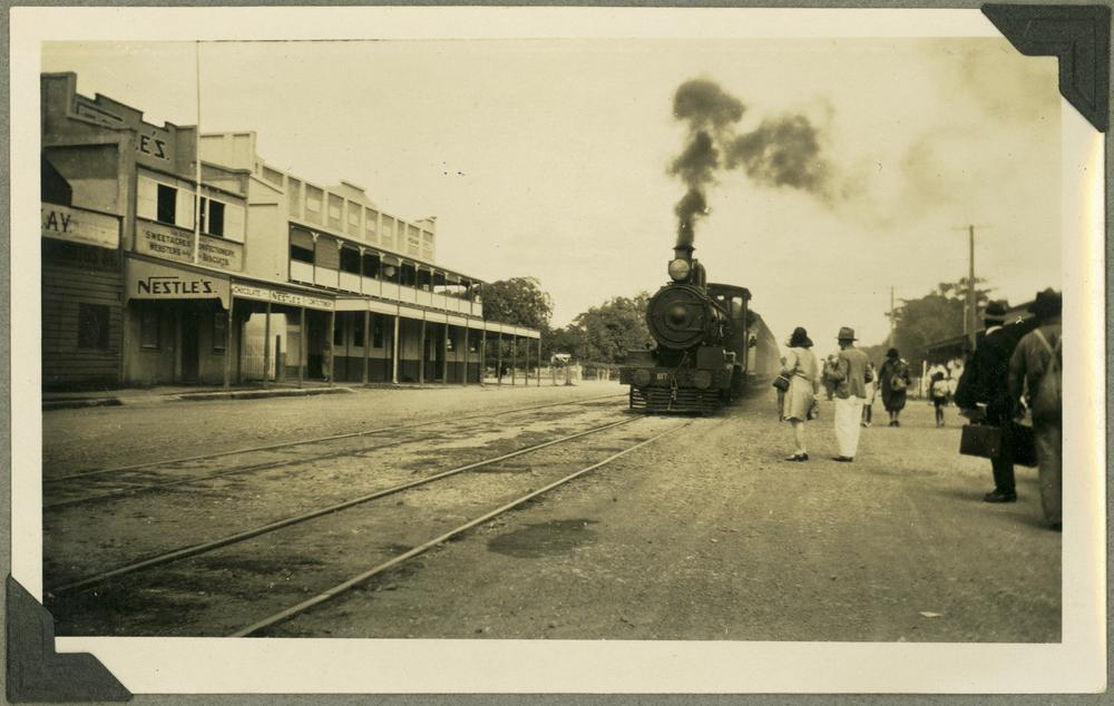 Passengers at the William Street, railway station in Rockhampton Yeppoon train leaving William Street enroute to Yeppoon.